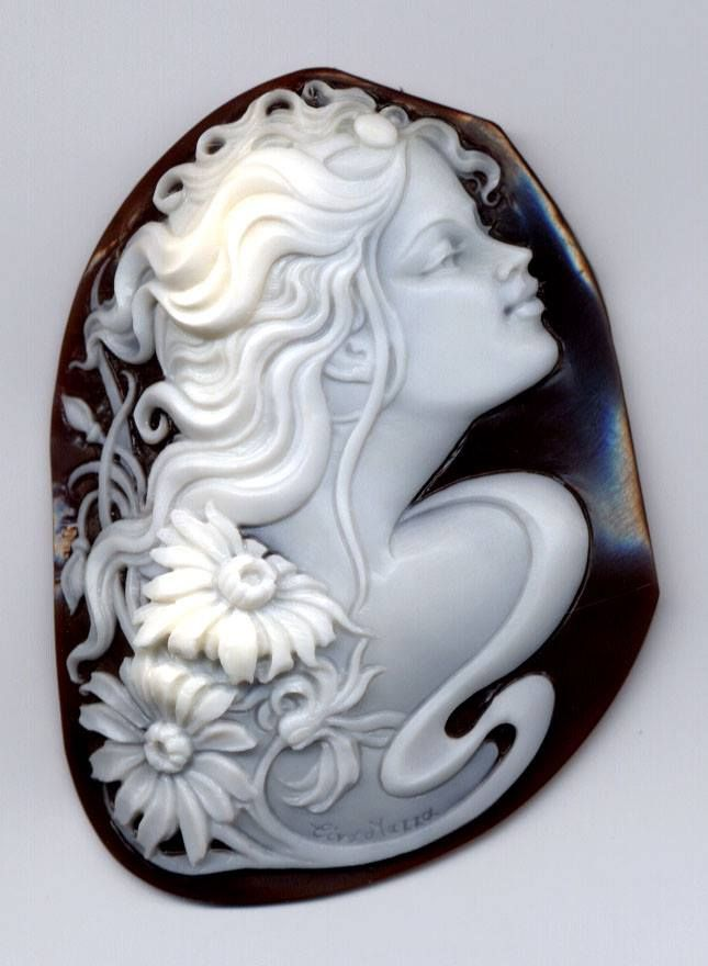 "Daisy", Cameo, handmade shell (Cassis madagascarensis).